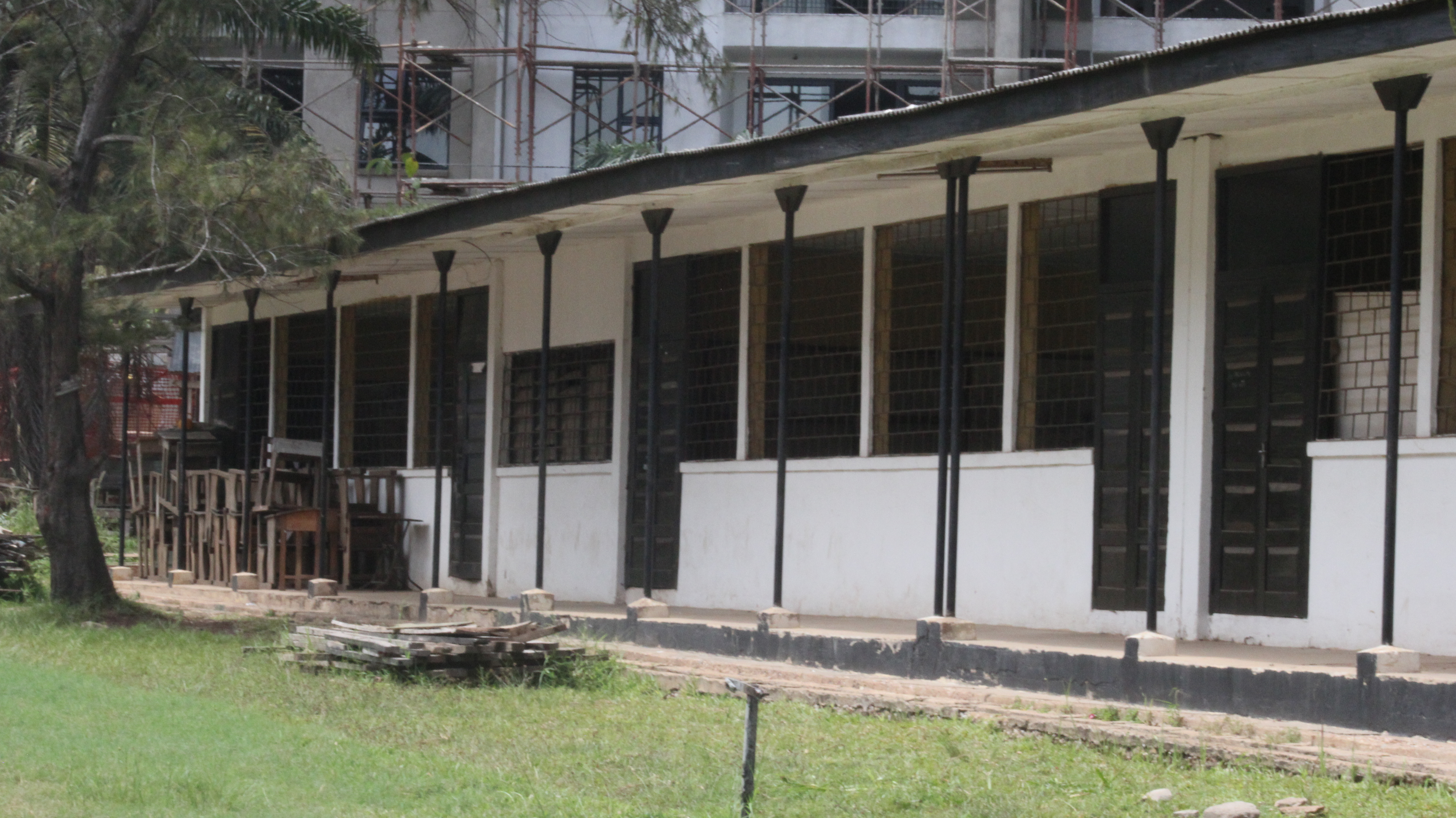 Pictures taken during the Wikineedsgirls campaign